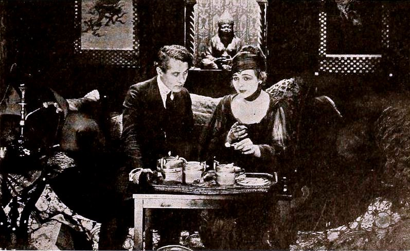 Still from the American film The Long Arm of Mannister (1919) with Henry B. Walthall and Helene Chadwick, on page 1083 of the August 2, 1919 Motion Picture News.